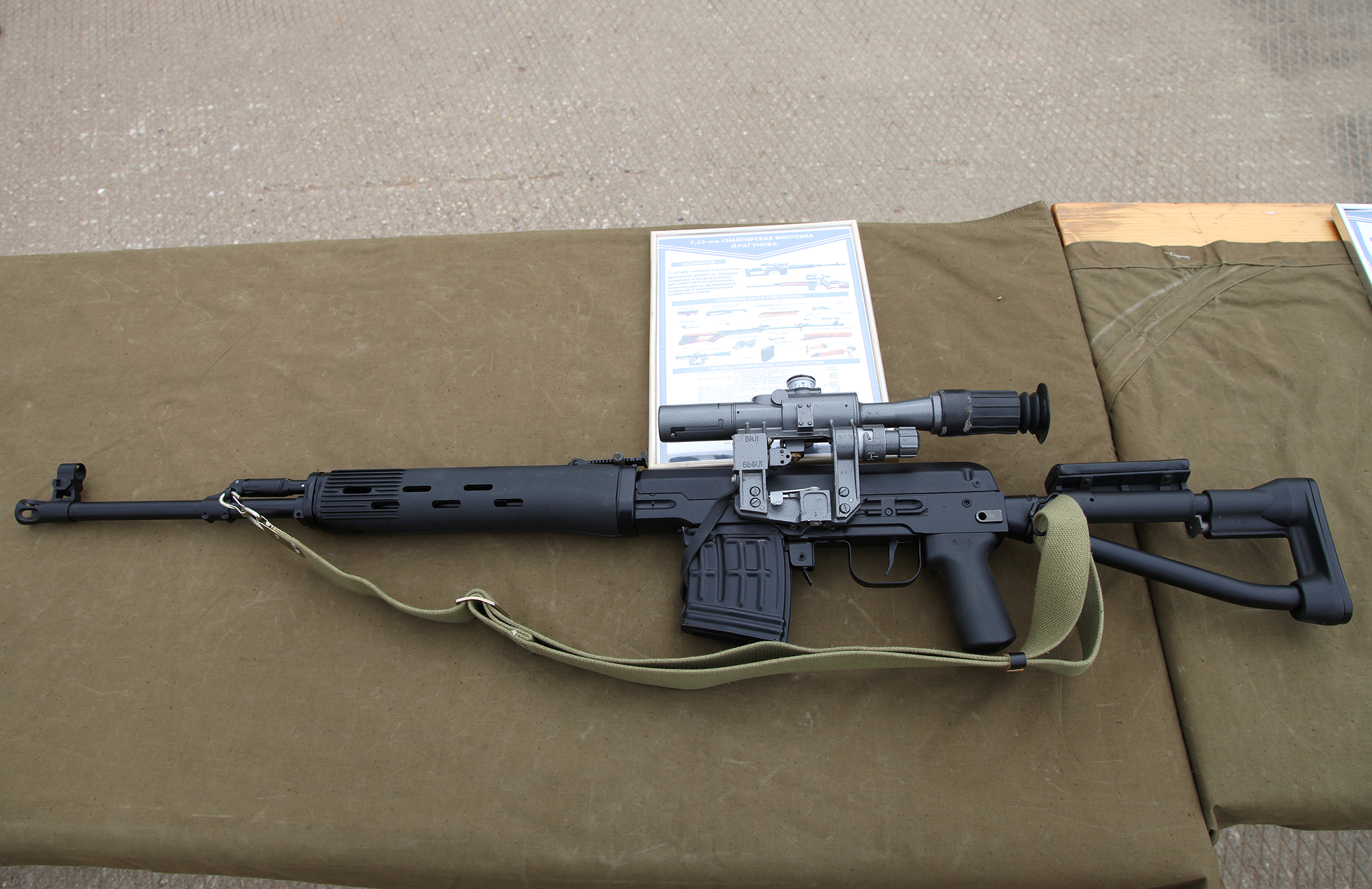 SVDS sniper rifle - Tank Biathlon-2014